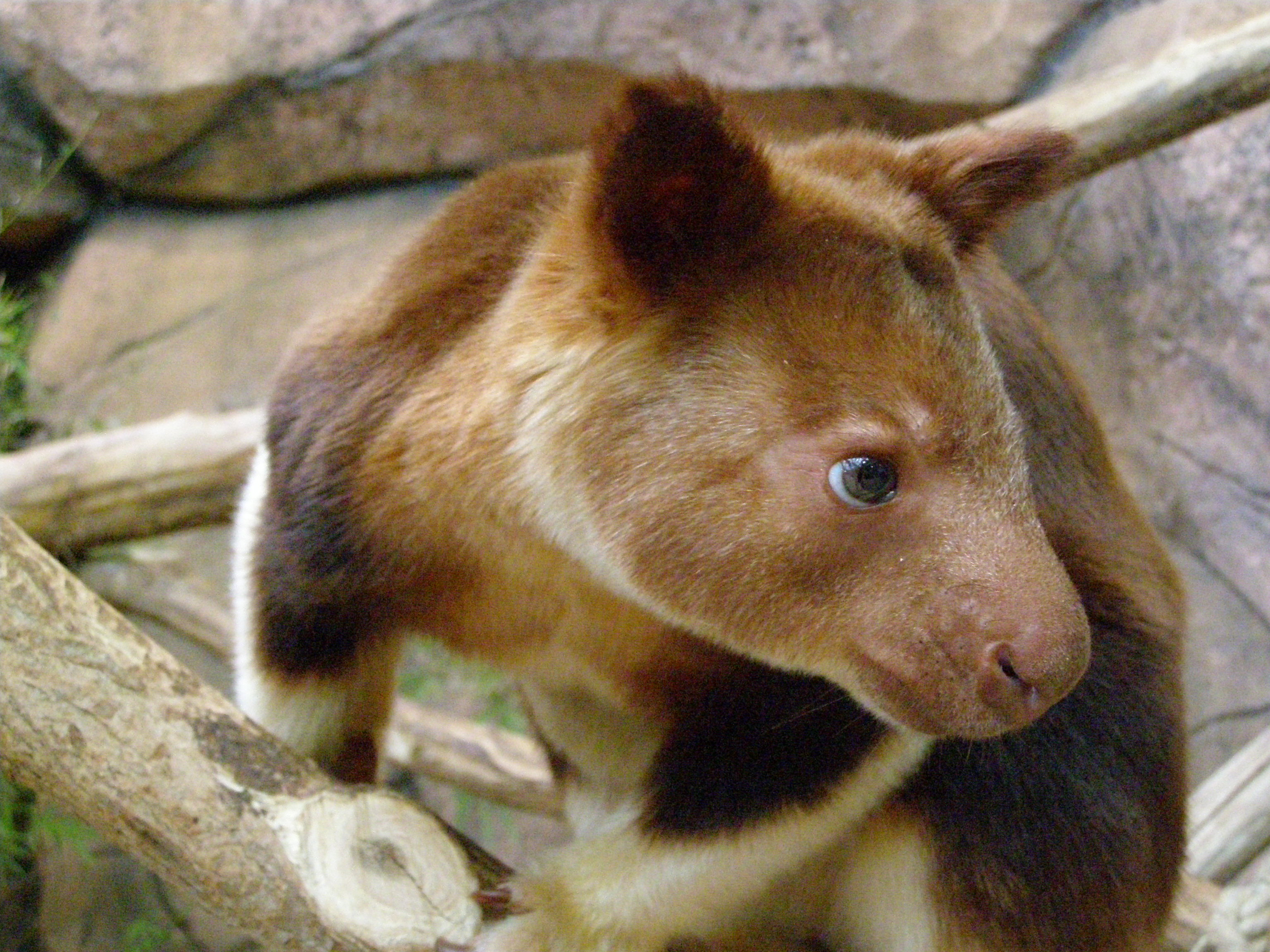 Dendrolagus goodfellowi, Goodfellow's Tree-Kangaroo (Dendrolagus goodfellowi) in a zoo.